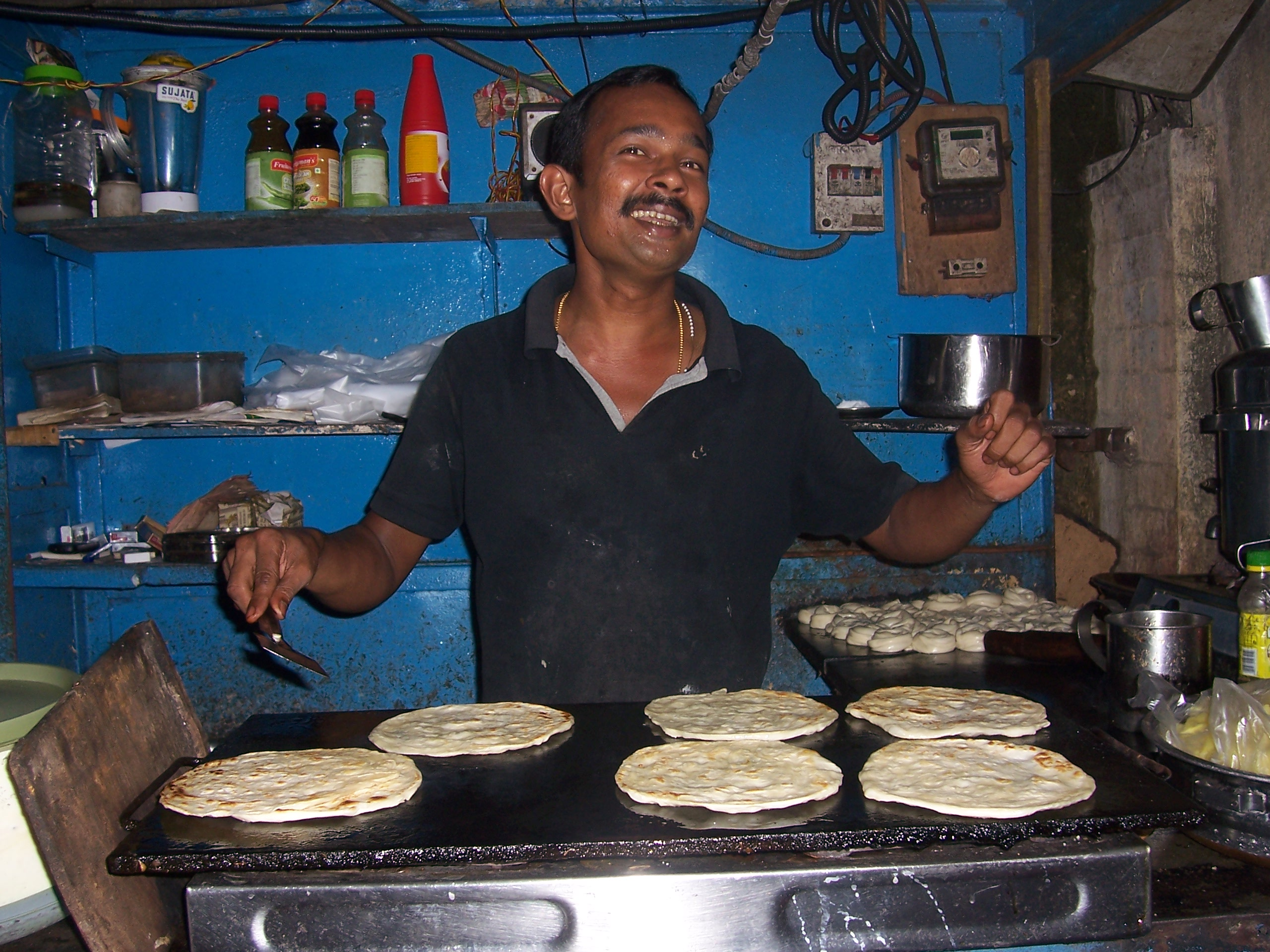 Place : Kochi - Ernakulam, Cannon Shed.